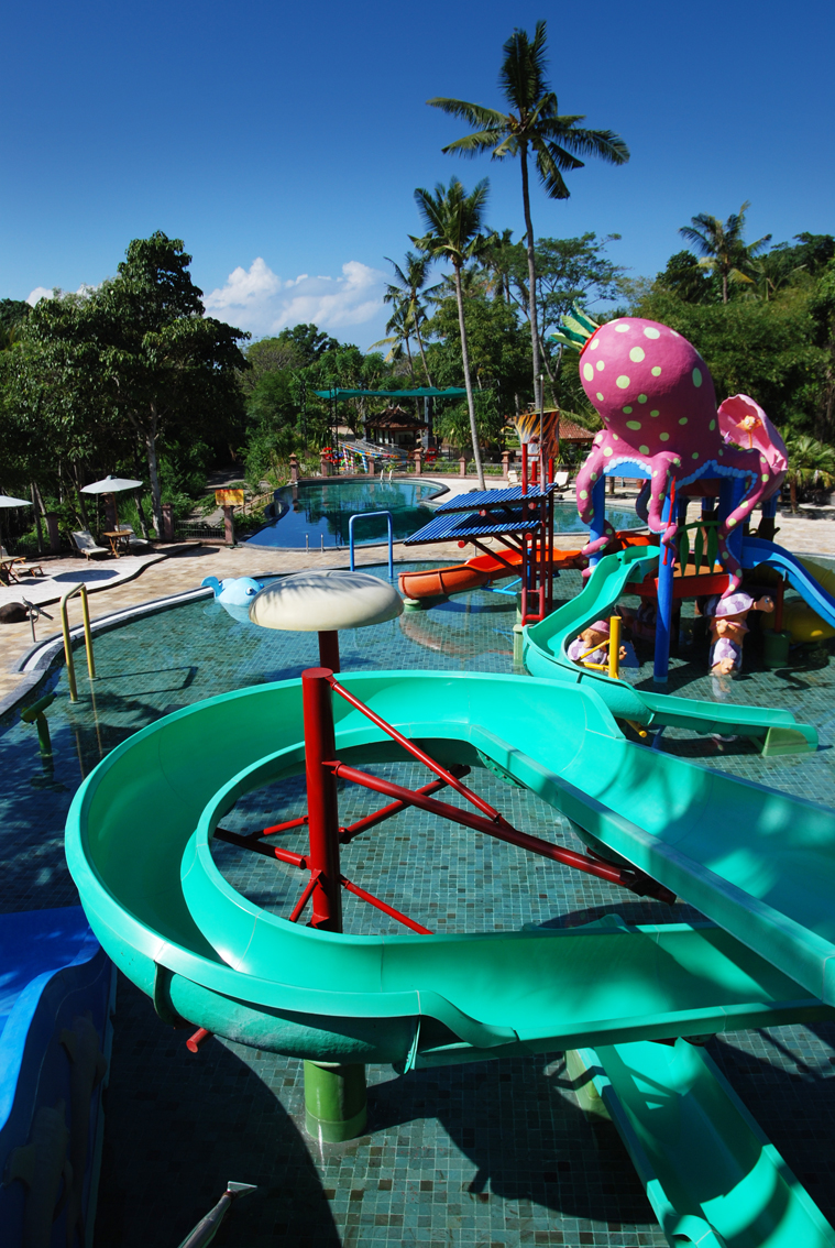 The Water Park – FunZone Looks like the kids will love this.